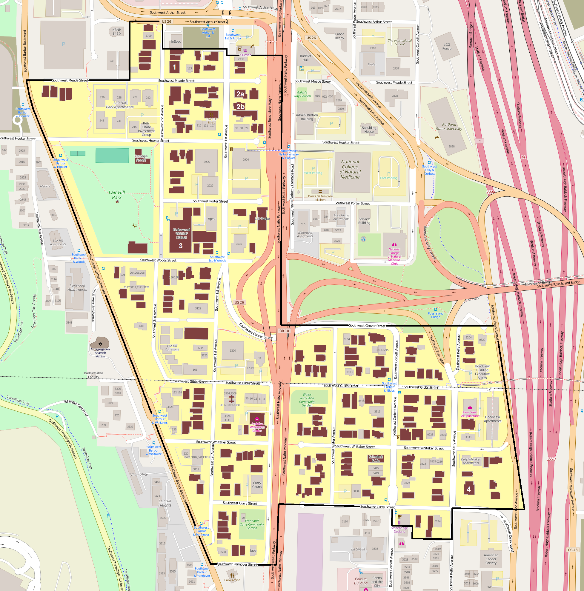 Map showing the boundaries of the South Portland Historic District in Portland, Oregon, United States. The historic district is listed on the US National Register of Historic Places. Black boundary/yellow area: South Portland Historic District boundaries. Maroon shading: Buildings listed as contributing resources in the historic district. Maroon asterisk: Contributing resource in the historic district that is not a building (Lair Hill Park). Maroon double-dagger: Marks the former location of a resource (Fourth Presbyterian Church) that was identified as a contributing feature in the historic district at the time of listing on the National Register, but which was either demolished or relocated by June 30, 2011 (date of Google Earth satellite imagery). White numbers: Represent the locations of contributing resources in the historic district that are also listed individually on the National Register: Corkish Apartments Peter Taylor House (2a) and Gotlieb Haehlen House (2b), listed jointly Neighborhood House Milton W. Smith House